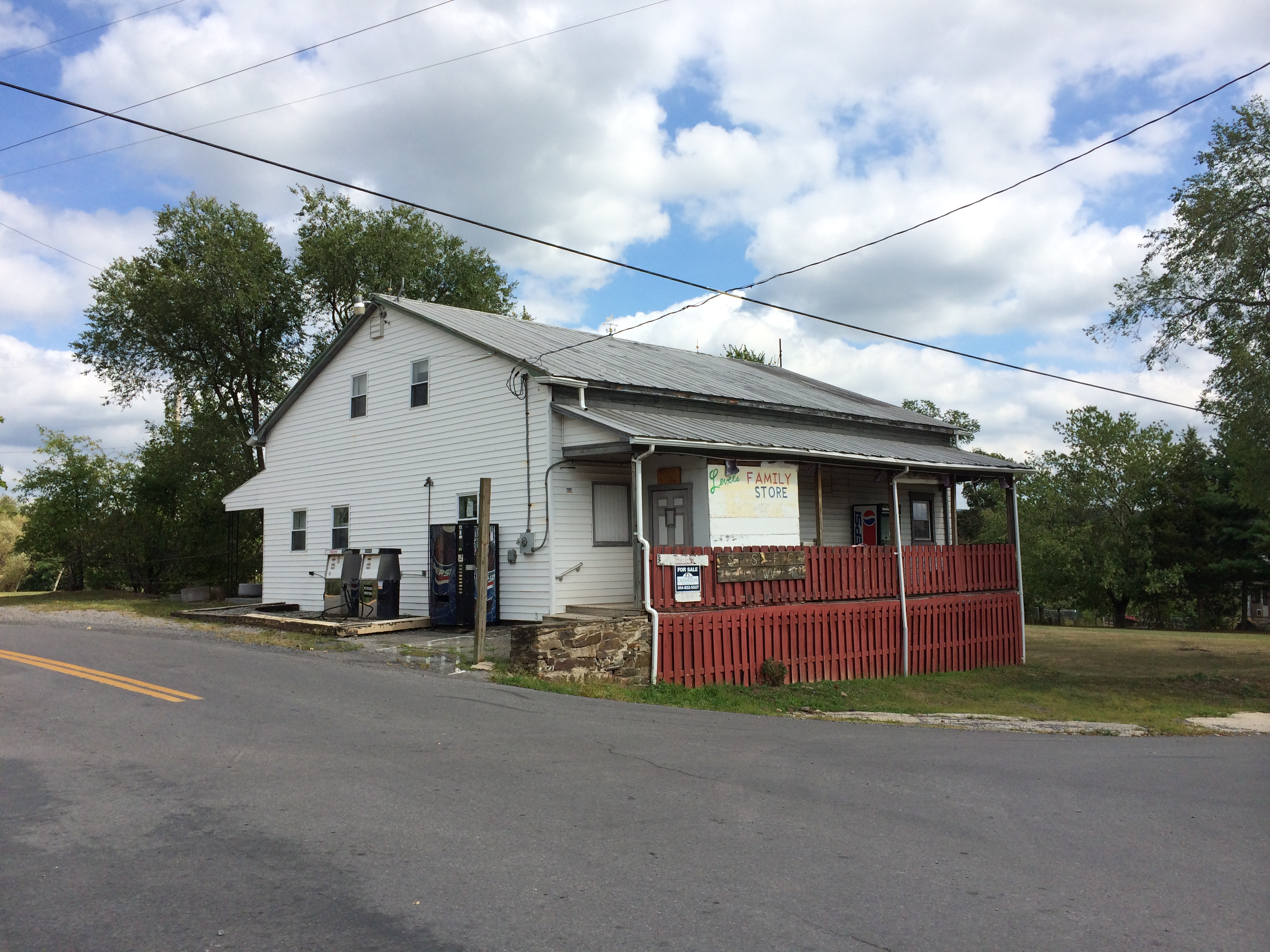 The Levels Family Store and Post Office is a former general store and post office in Levels, West Virginia, United States. It is located at the intersection of Jersey Mountain Road (CR 5), Frenches Station Road (CR 5/7), Brights Hollow Road (CR 5/5), and Little Cacapon–Levels Road (CR 3/3). Photographed by Justin A. Wilcox of Washington, D.C.